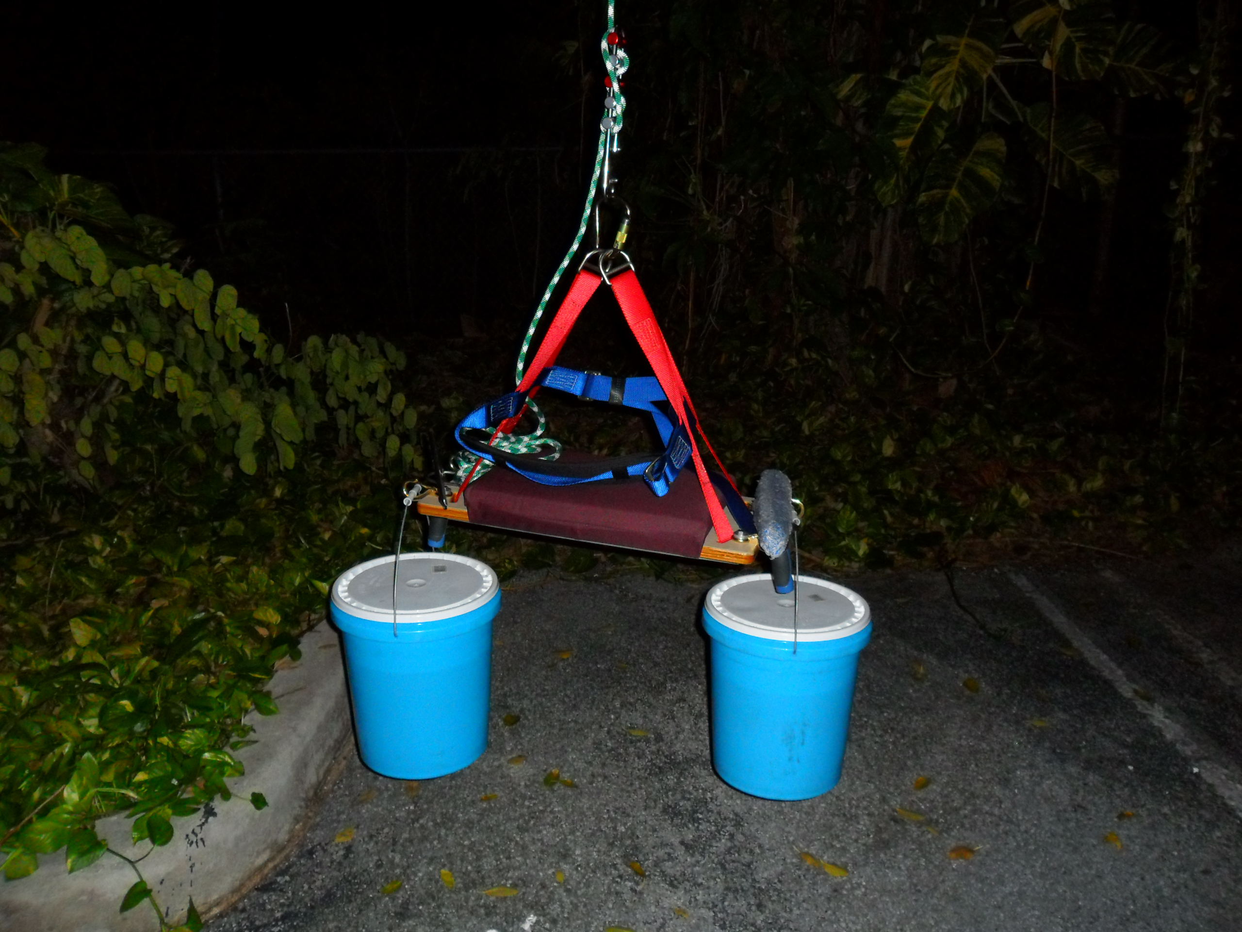 window cleaners bosun's chair